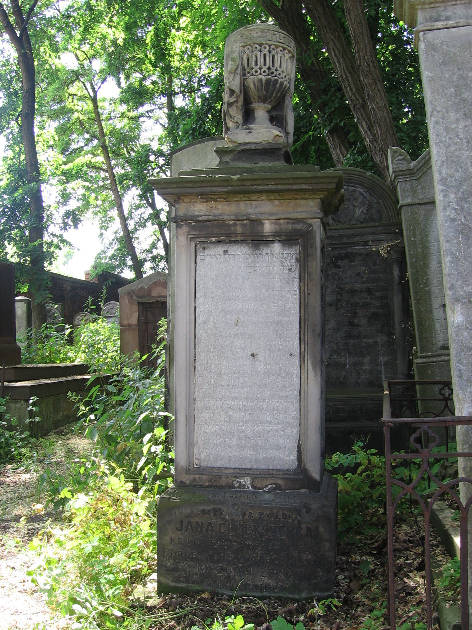 The grave of Jan Glucksberg at Powązki Jewish Cemetery in Warsaw, Poland